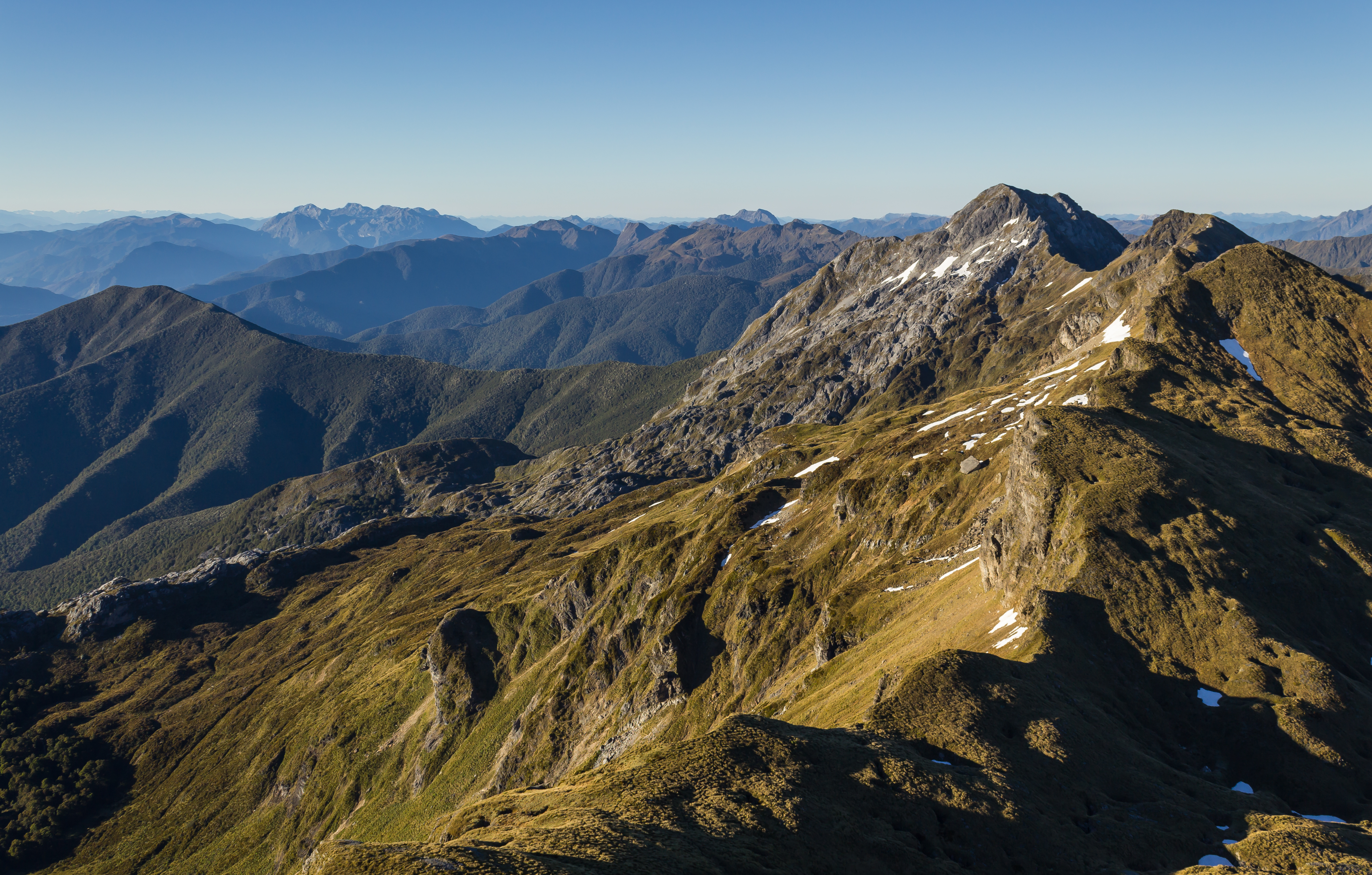 Mount Arthur Range, in the Kahurangi National Park, New Zealand, as viewed from the track to the top of Mount Arthur.